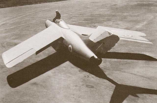 Third prototype FMA Iae 33 Pulqui II jet fighter, on the ramp.